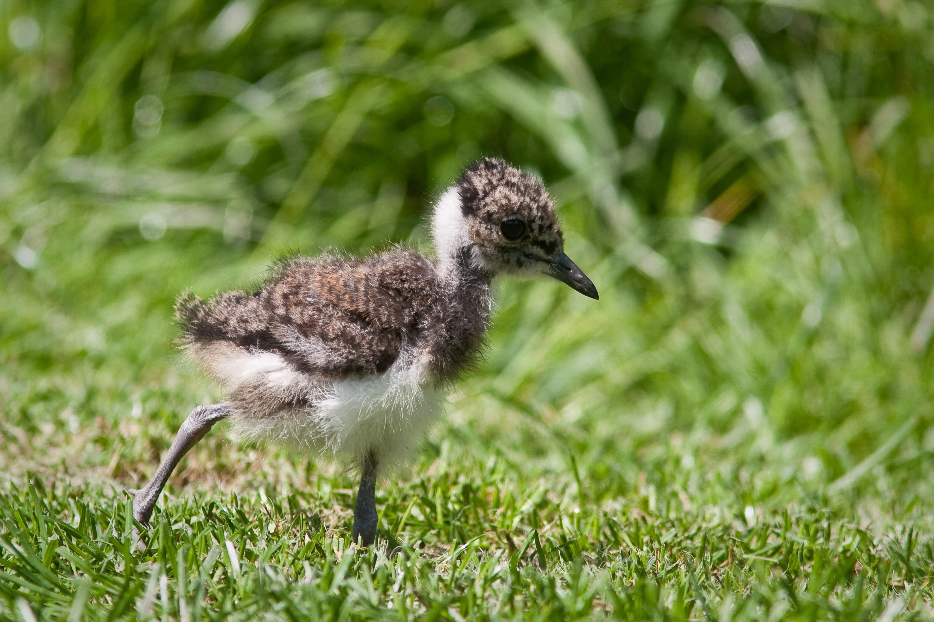 A Northern Lapwing chick at Rotterdam Zoo, Netherlands. It is in an area for wild birds and it ran to an adult lapwing for shelter.